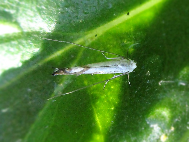 Lyonetia prunifoliella (Lyonetiidae sp.), Elst (Gld), the Netherlands